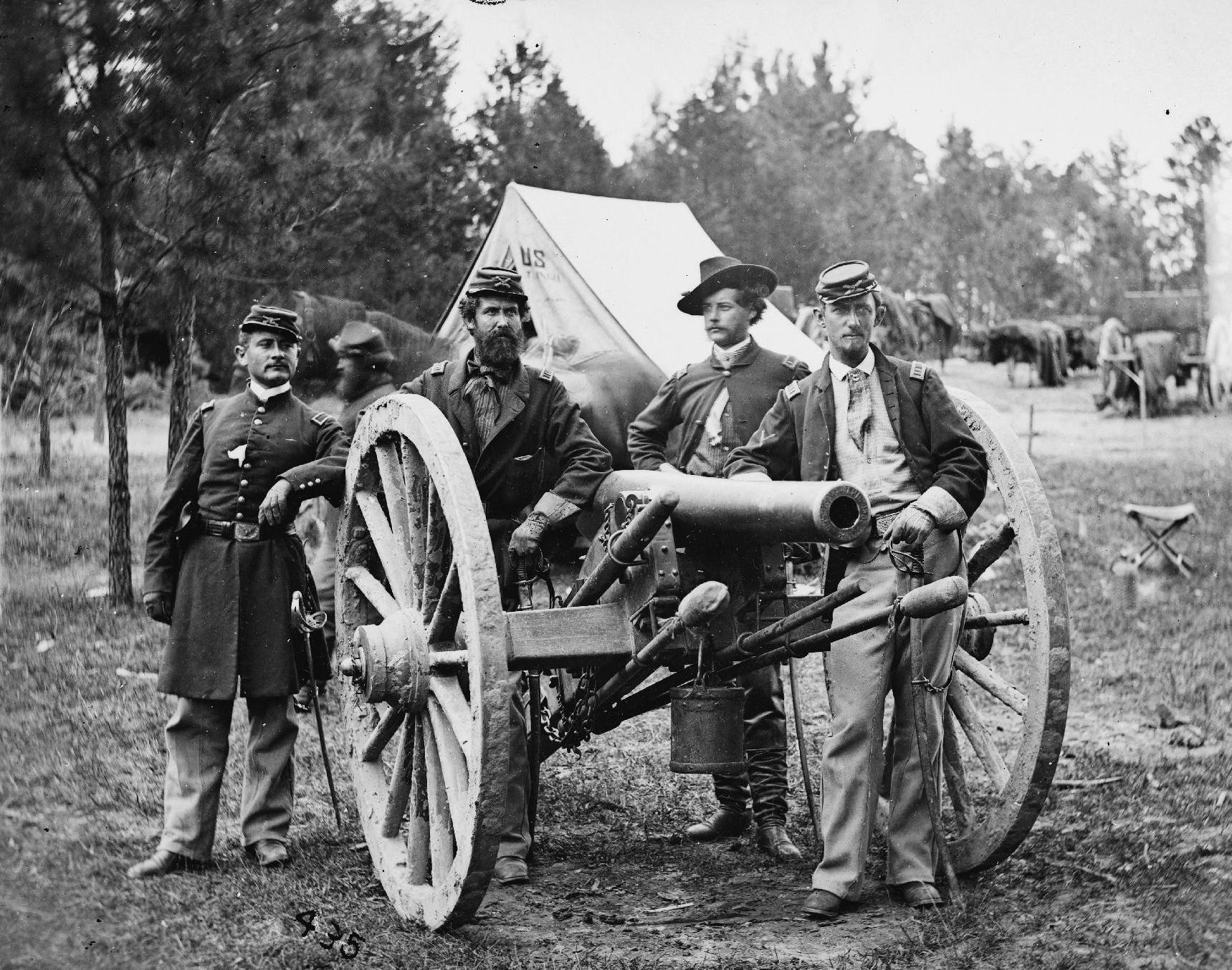 Fair Oaks, Va., vicinity. Lt. Robert Clarke, Capt. John C. Tidball, Lt. William N. Dennison, and Capt. Alexander C.M. Pennington.